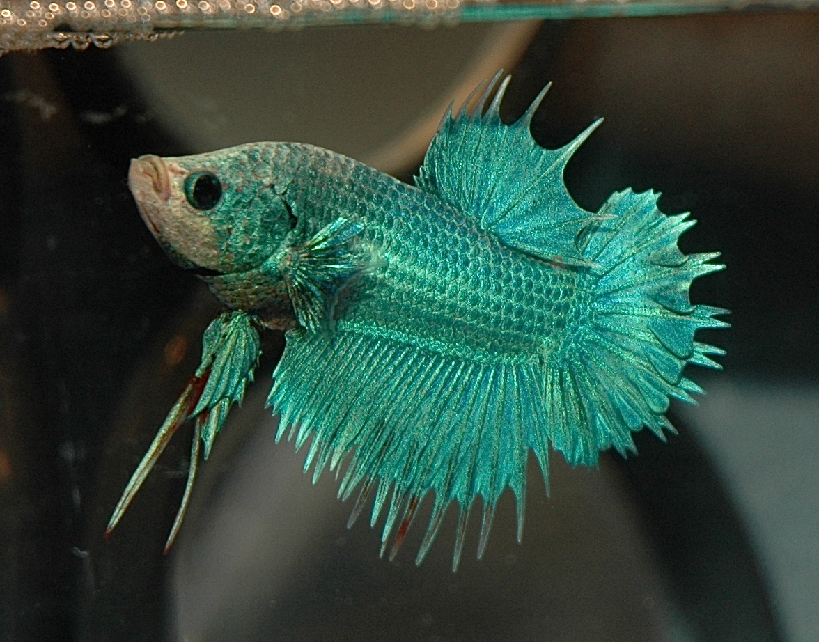 Betta splendens, male, Crowntail Plakat